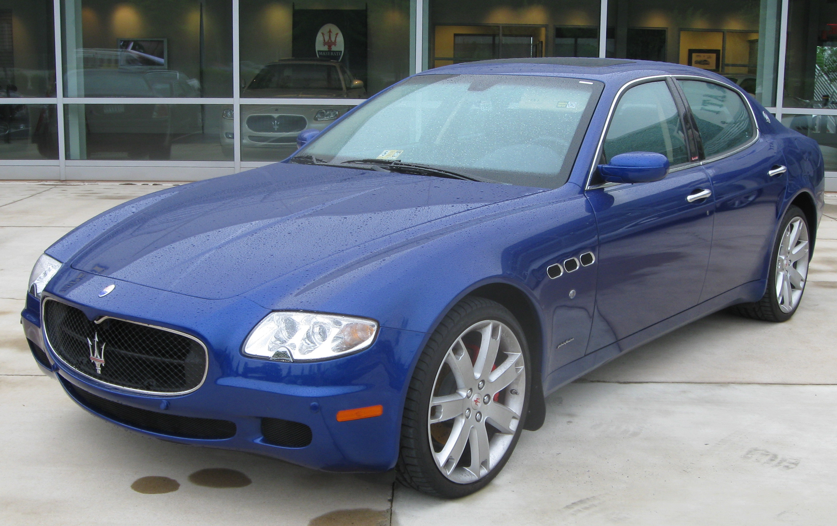 Maserati Quattroporte photographed in Sterling, Virginia, USA.